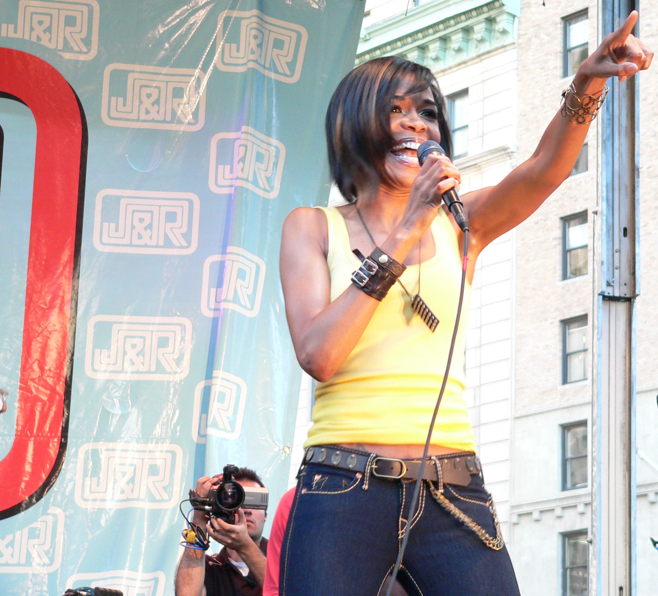 Live in City Hall Park